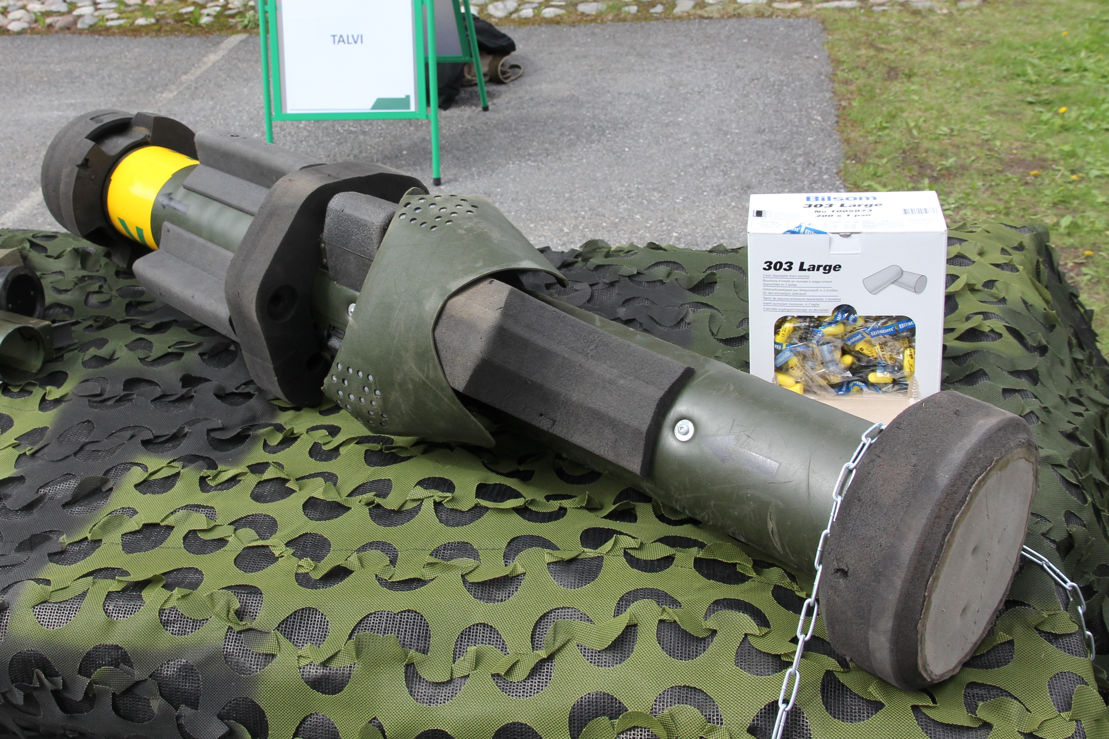 Apilas anti-tank rocket on display during Finnish Defence Forces 2014 Flag day in Lappeenranta Rakuunanmäki.